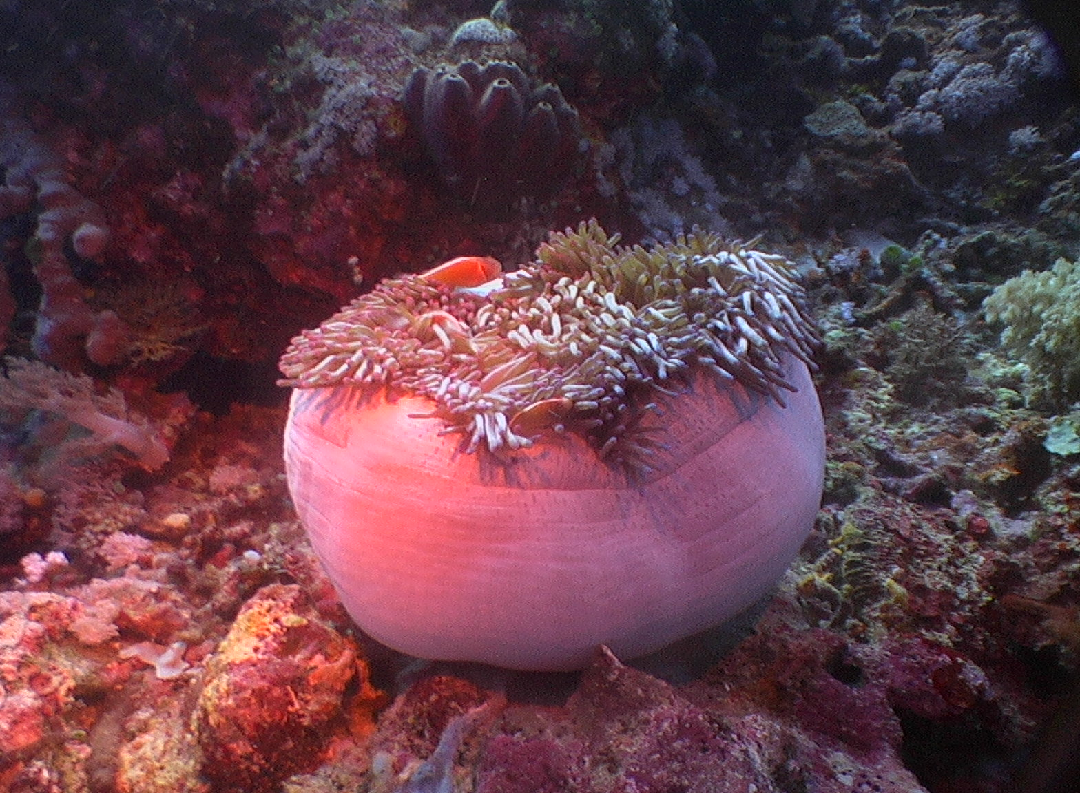 Heteractis magnifica, Synonym Radianthus Ritteri